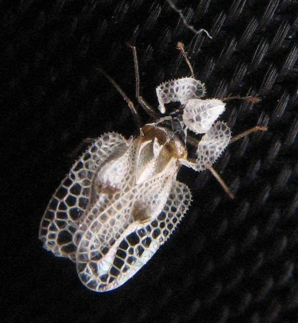 This insect landed on my friend Christina's bag when we sat at the river Neckar in Heidelberg, and she could take this incredible macro of it. It's really tiny. Does somebody know what it might be?